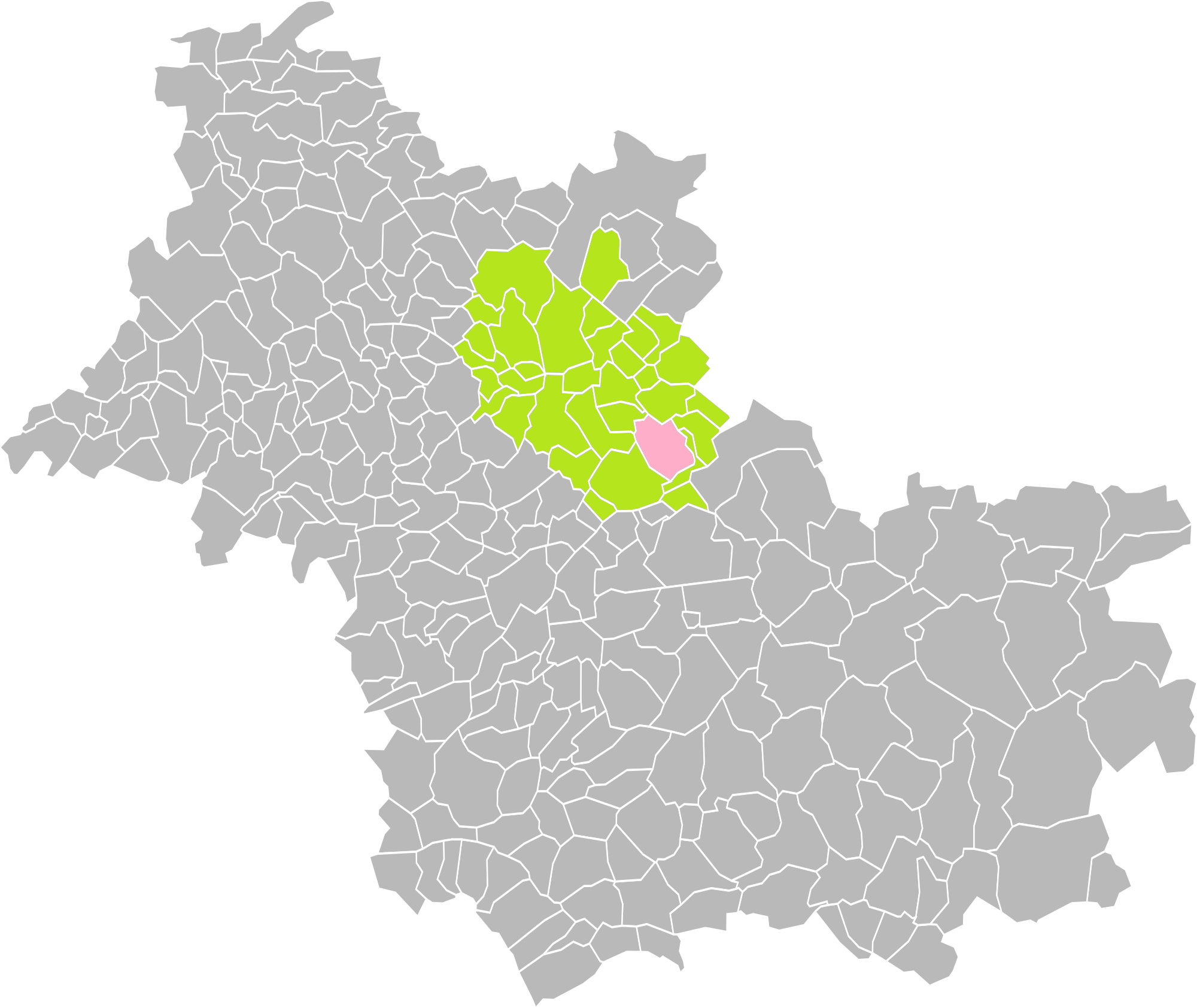 Location of the commune of Mer in the Communauté de communes de la Beauce-Val de Loire (Loir-et-Cher)